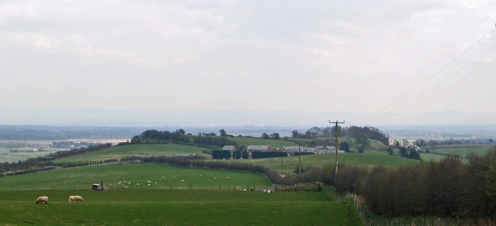 Atlas of Hillforts 3187 Photograph of Eddisbury hill fort from the west